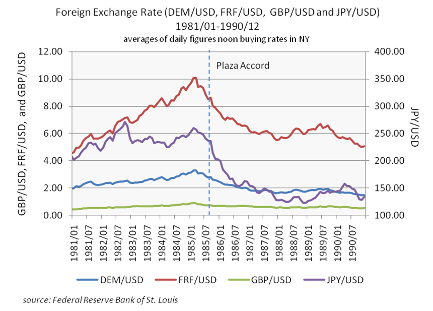 Foreign Exchange Rate (1981/1-1990/12), DEM/USD, FRF/USD, GBP/USD, JPY/USD